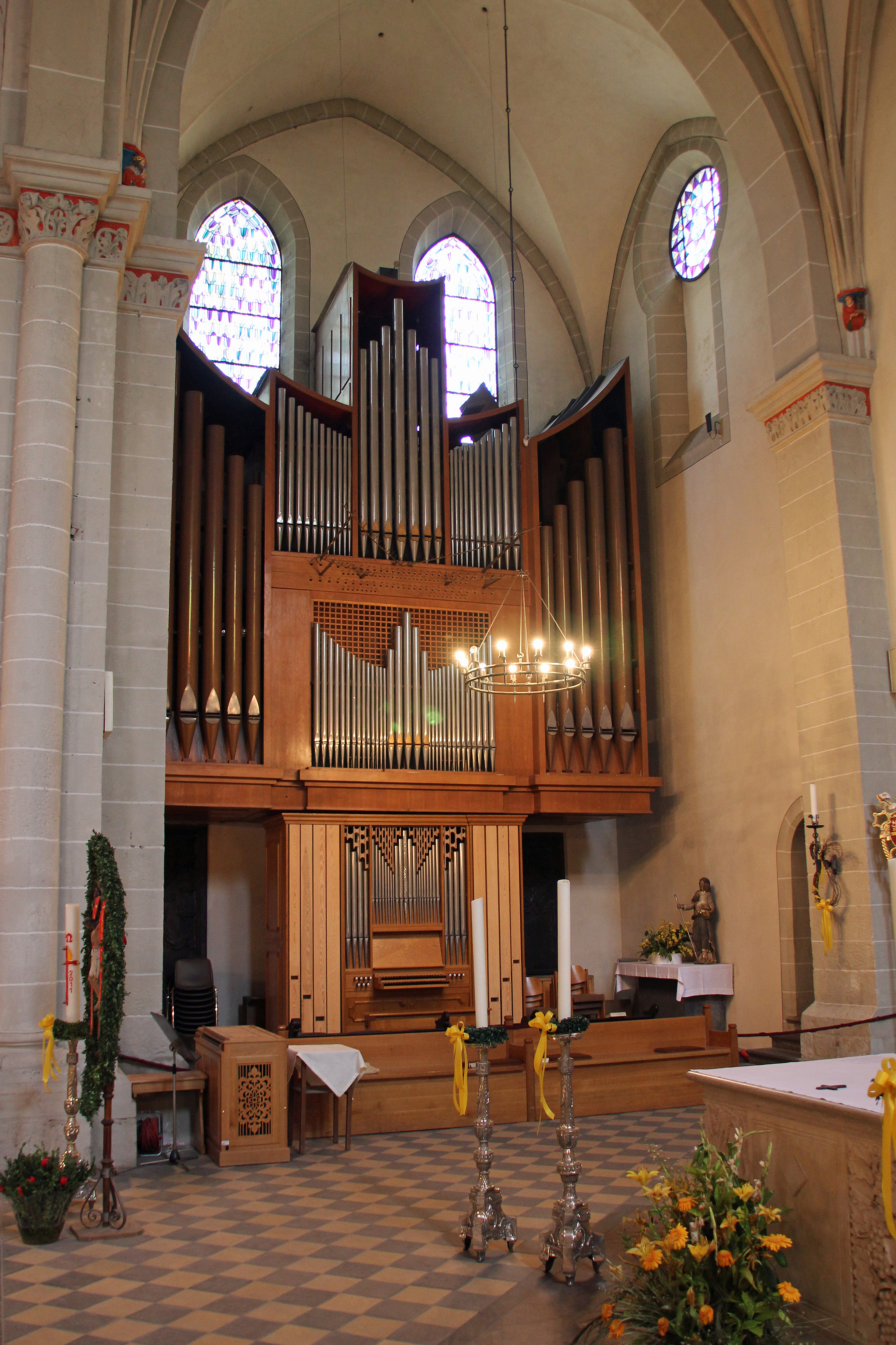 Basilica of St. Castor in Koblenz